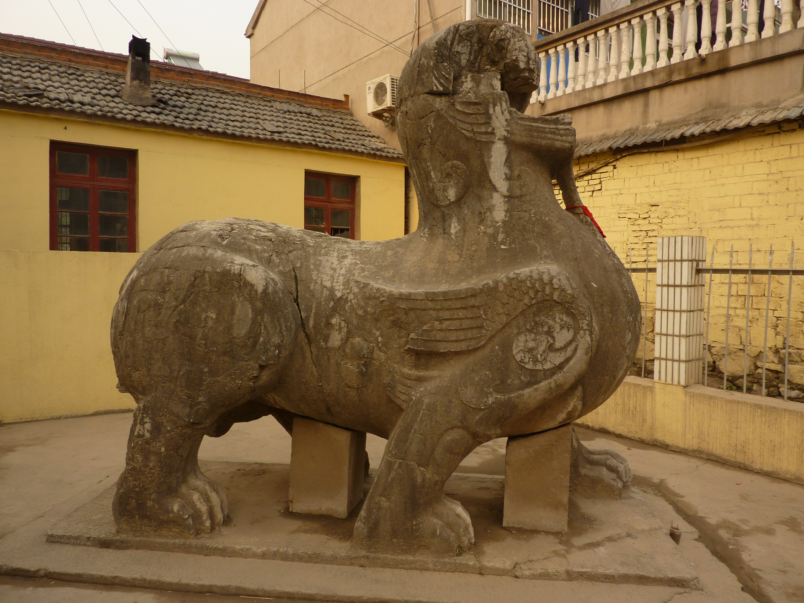 The Chuning Tomb, in the present day Qilin Town near Nanjing, is the tomb of Emperor Wu of Liu Song (363–422). All that remains there are two qilin statues, facing each other across a mostly residential street in the appropriately named Qilinpu ("Qilin capture") neighborhood of the Qilin Town.